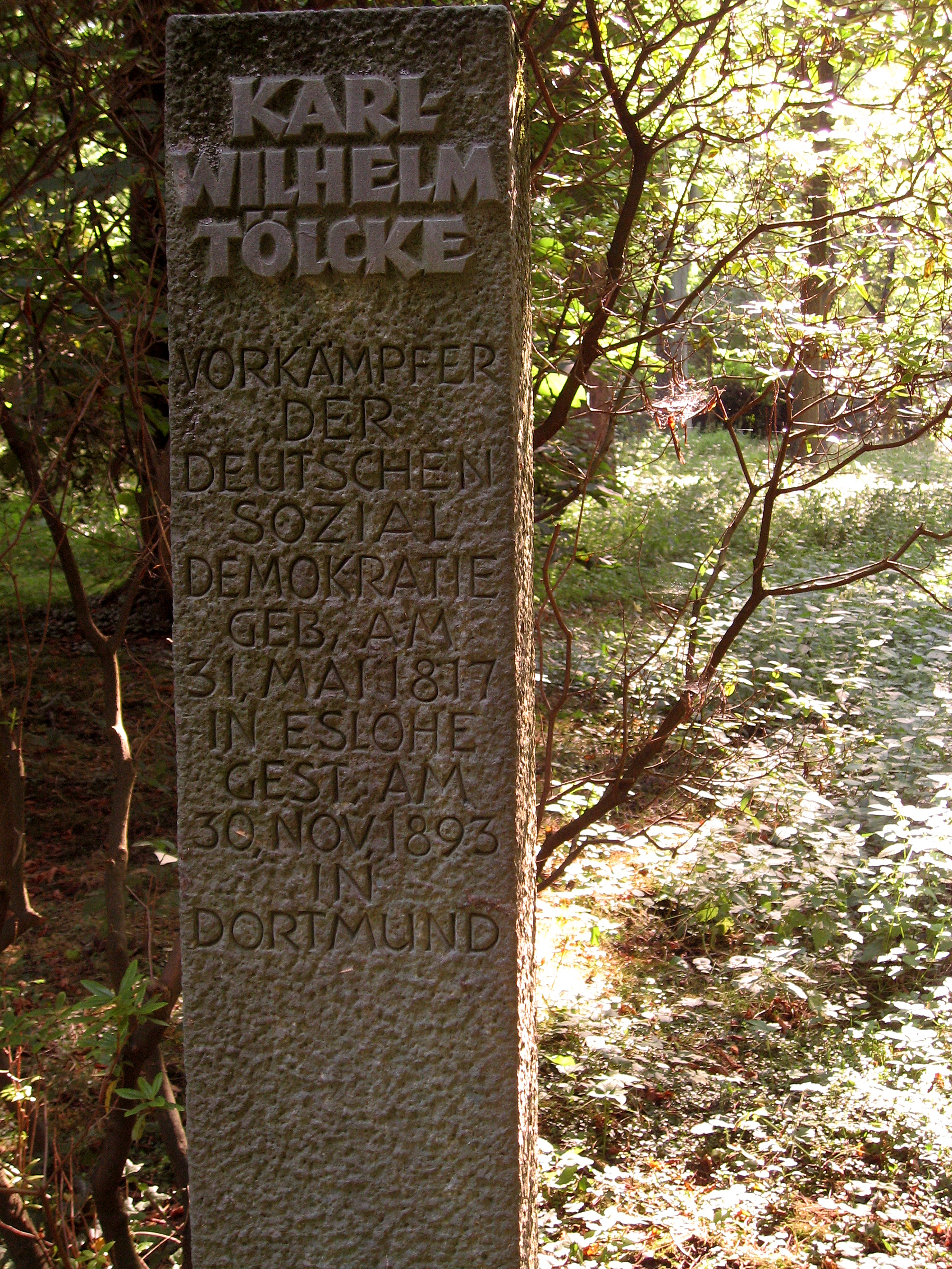 Memorial located in Ostenfriedhof (East Cemetery) in Dortmund, for Karl Wilhelm Tölcke, champion of German social democracy, born May 31, 1817 in Eslohe; died November 30, 1893 in Dortmund (both in present-day North Rhine-Westphalia)